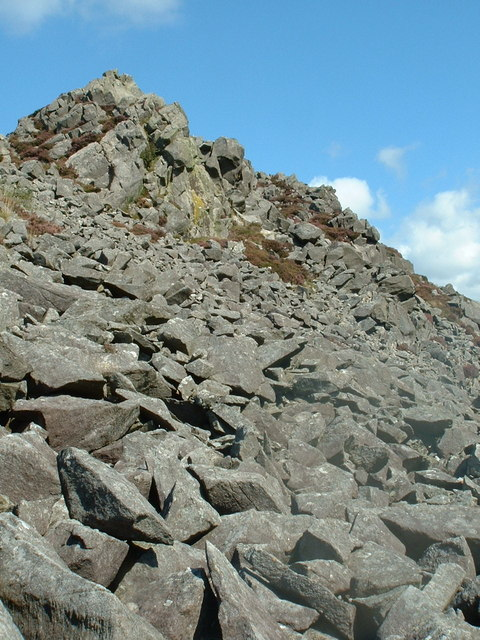 Carningli scree slope A bank of scree (rock type: dolerite) on the eastern flank of Carningli, Pembrokeshire.